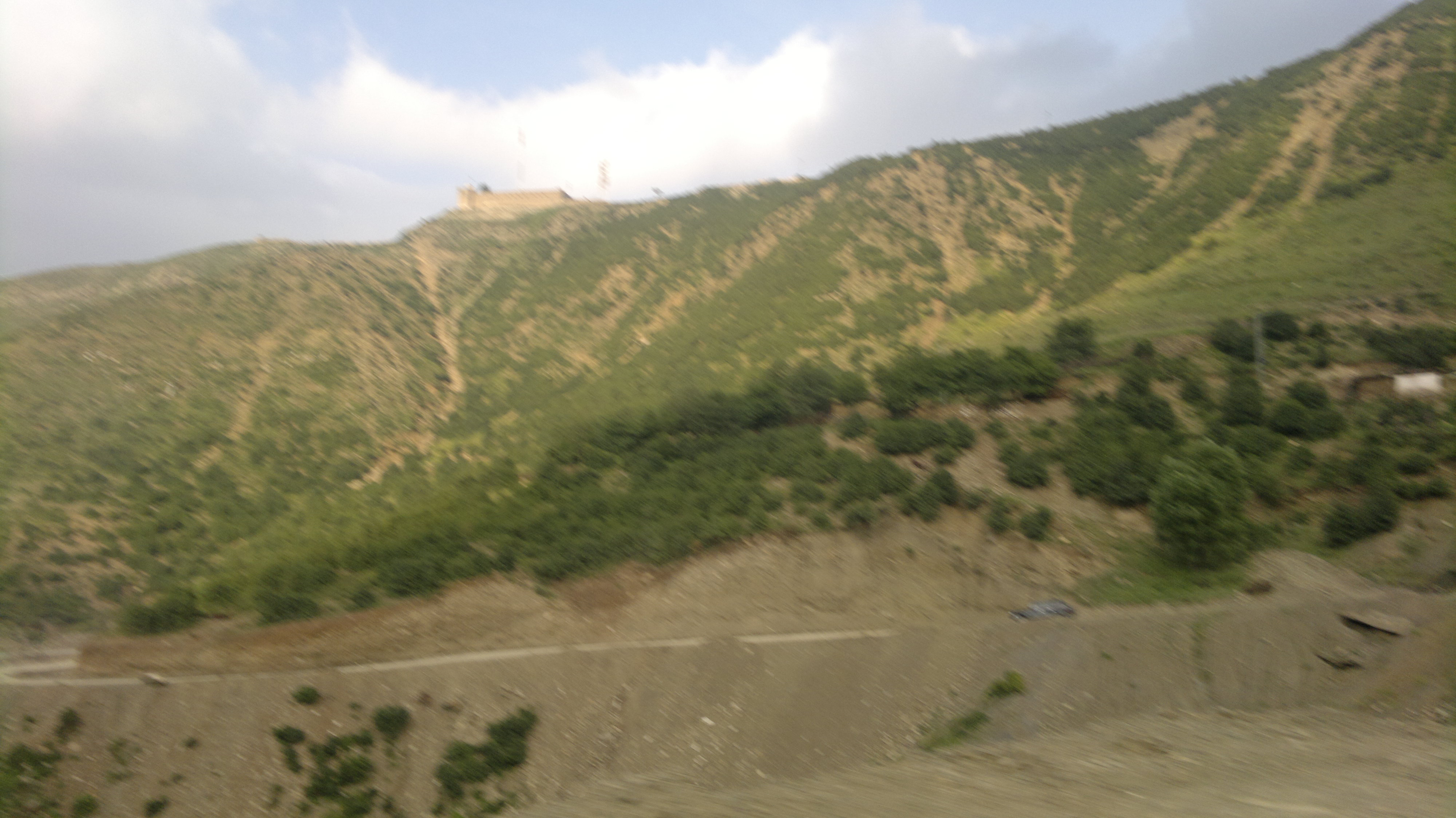 Alexander Fort (British era) This is a photo of a monument in Pakistan identified as the FATA-8